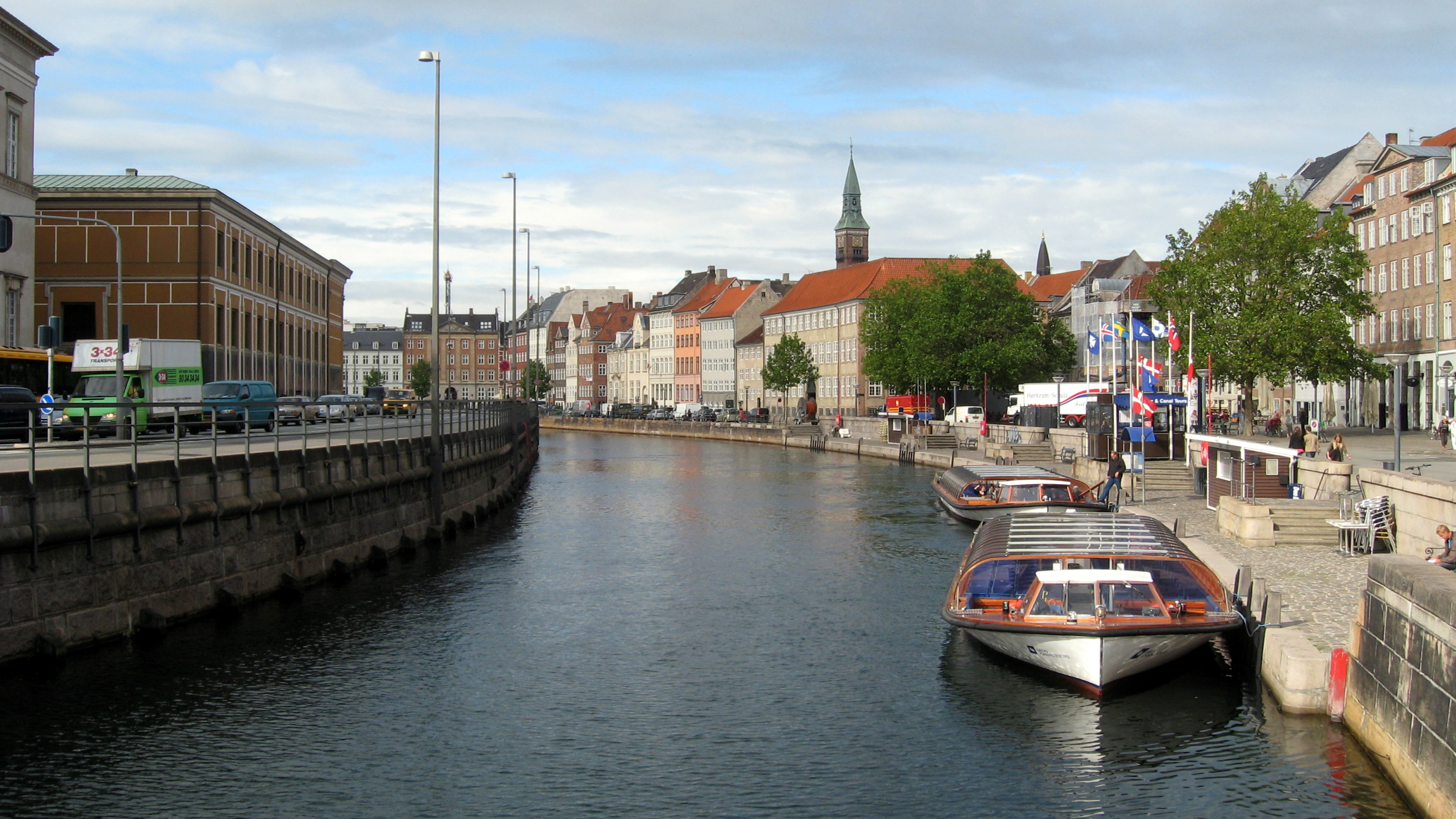 Copenhagen. DFDS Canal Tours Terminal at Gammel Strand